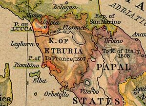 Etruria in 1806